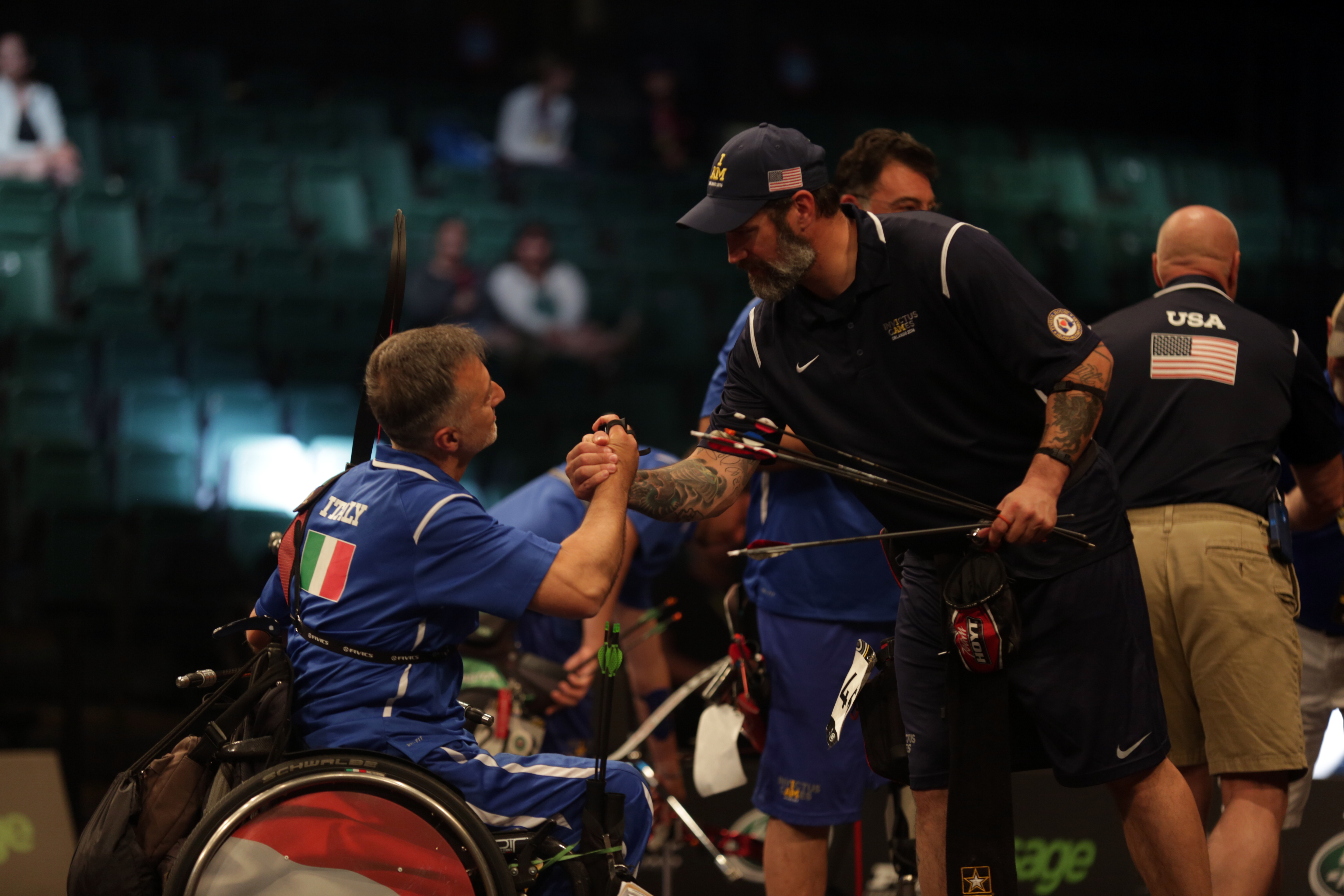 U. S. Army Veteran Billy Meeks, shakes hands with Team Italy at the completion of the Team Open Recurve Bronze Medal match of the archery competition with teammates Air Force Veteran Daniel Crane and Army Veteran Sean Hook for the United States team at the 2016 Invictus Games. They are three of the 115 Active Duty and Veteran athletes representing the US team during the Invictus Games in Orlando, FL, May 8-12. Invictus Games, an international adaptive sports tournament for wounded, ill and injured service members and Veterans, features about 500 military athletes from 15 countries competing in archery, cycling, indoor rowing, powerlifting, sitting volleyball, swimming, track and field, wheelchair basketball, wheelchair racing, wheelchair rugby and wheelchair tennis; as part of the international adaptive sports tournament for wounded, ill, and injured service members. The US team includes active duty and veteran athletes from all U.S. military services and the Special Operations Command. (U.S. Army photo by Sgt. Jason Edwards/ Released) Unit: Warrior Transition Command